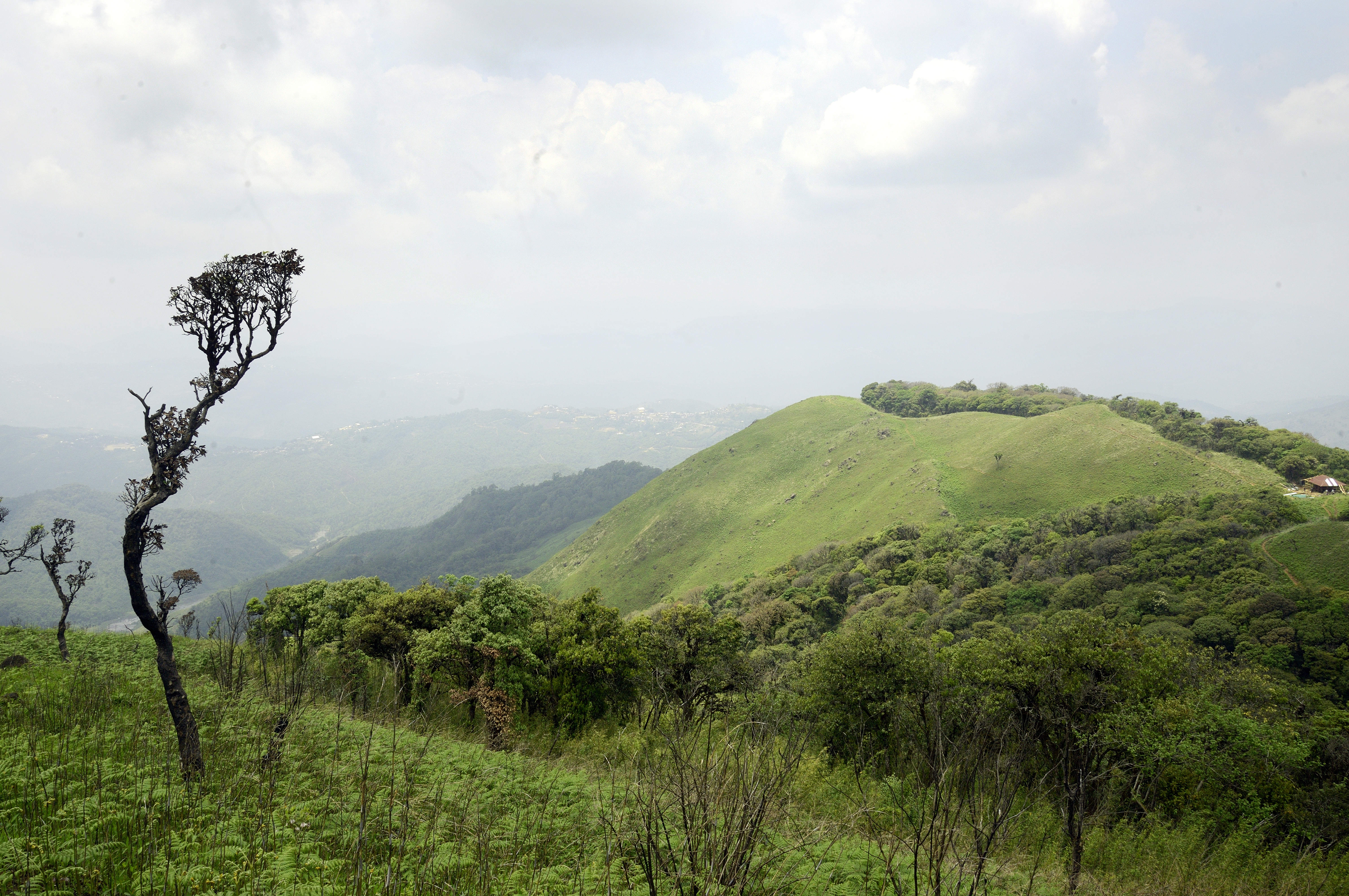 A scene from Siroy National Park, Manipur. this is the home for a rare flower of Lilium mackliniae and now a days the plant population is becoming lower.